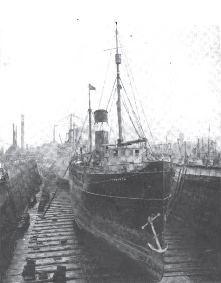 Two steamships in the large sectional floating dry dock of the Morse Dry Dock and Repair Company of Brooklyn, New York, circa late 1919-early 1920. At the time this photo was taken, the Morse dock was the largest floating dock in the world, capable of lifting a 725-foot long, 30,000 gross ton steamship, or two smaller ships simultaneously. The second ship is difficult to see due to the poor quality of the image.